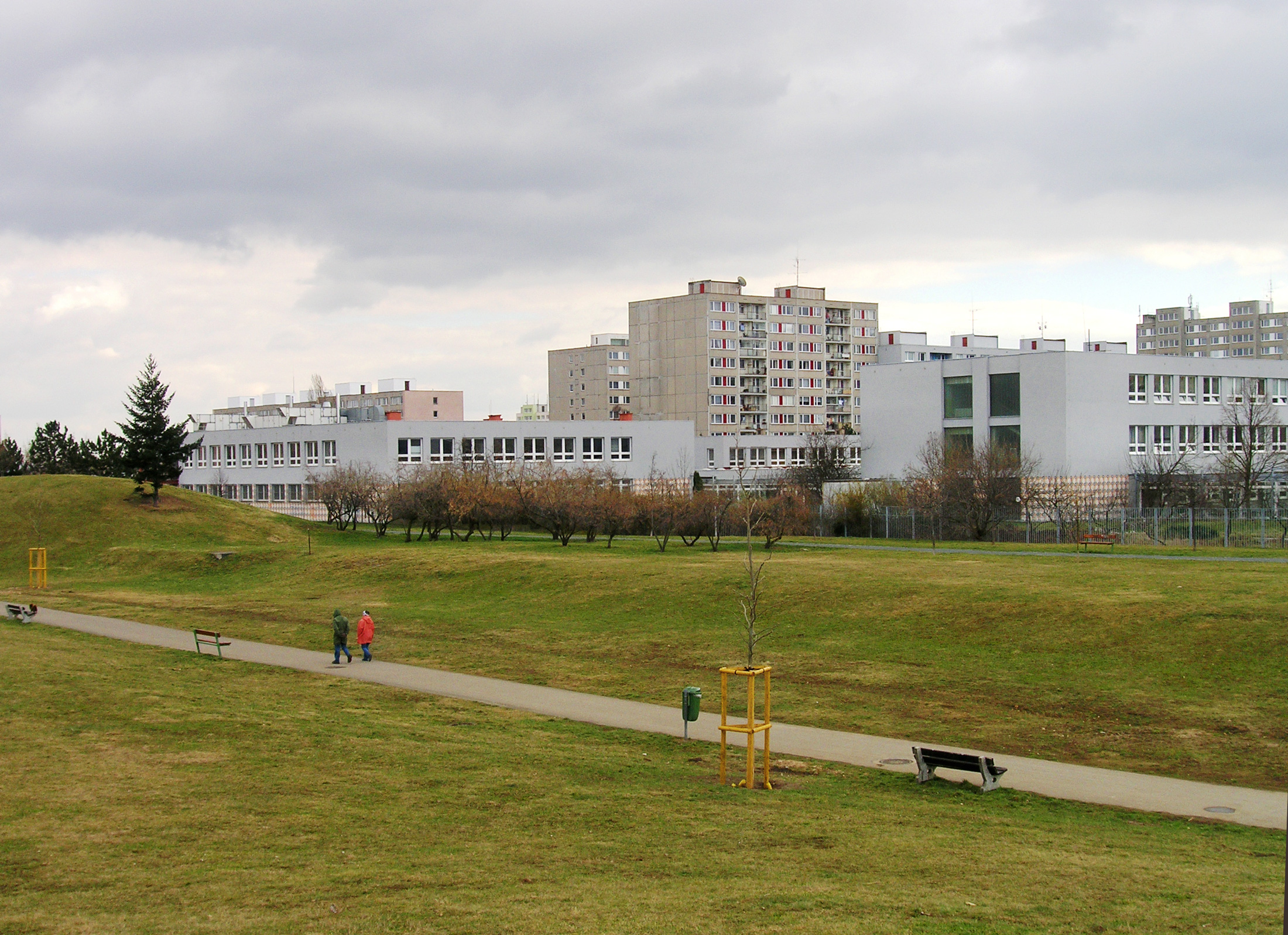 Opatov Grammar School in Chodov, Prague. View from the Central Park.